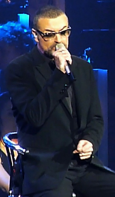 George Michael at the Palais Nikaia (Nice, France) in 2011, for Symphonica: The Orchestral Tour.